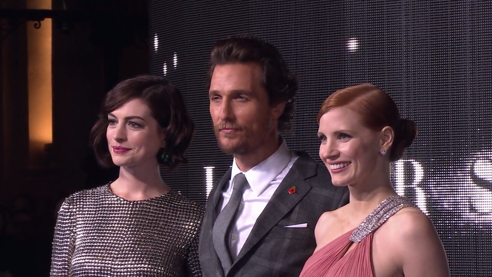 Anne Hathaway, Matthew McCounaughay & Jessica Chastain at Interstellar European premiere